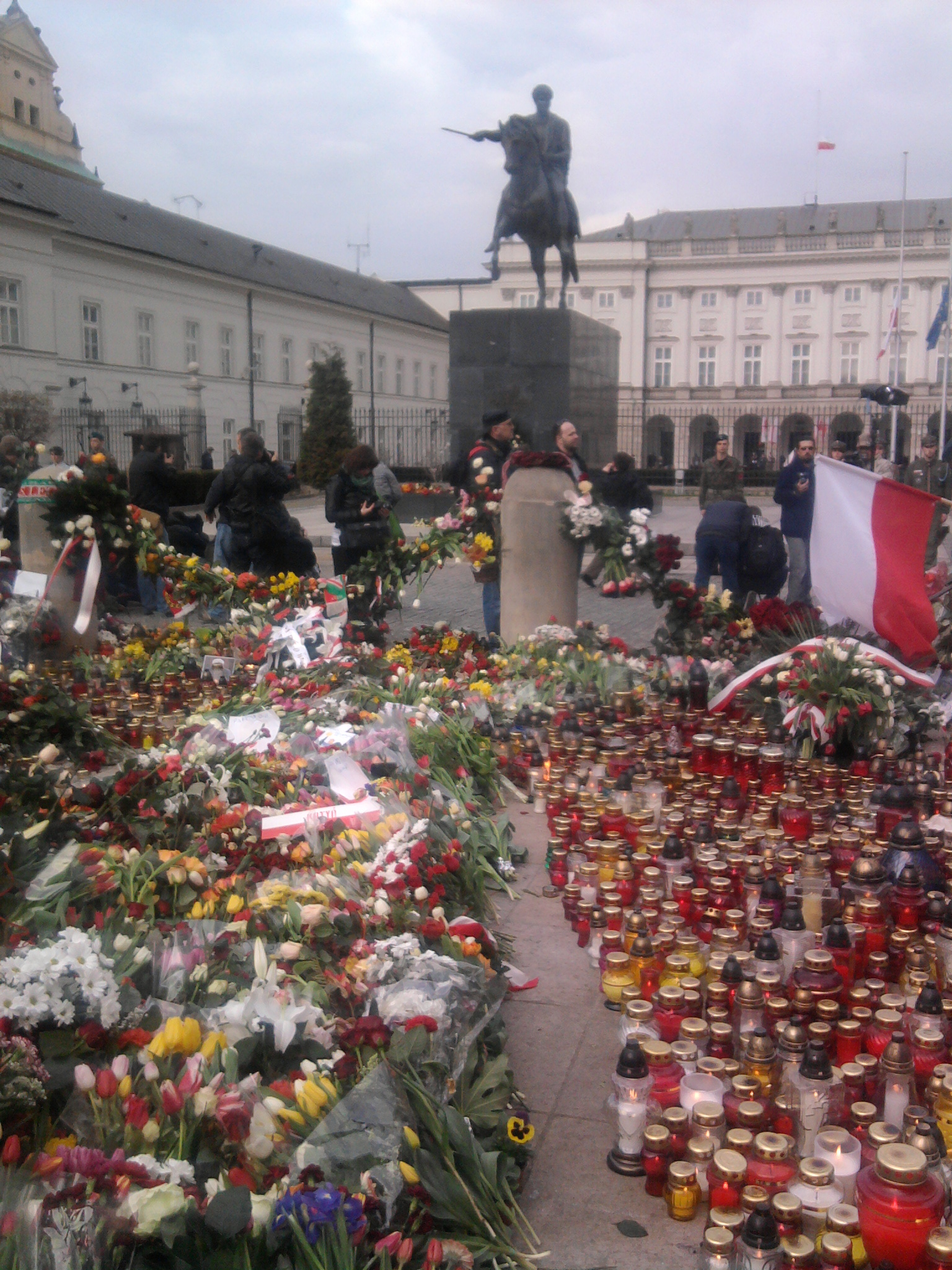 Candles and flowers after death of president Lecz Kaczynski in the plane crash.